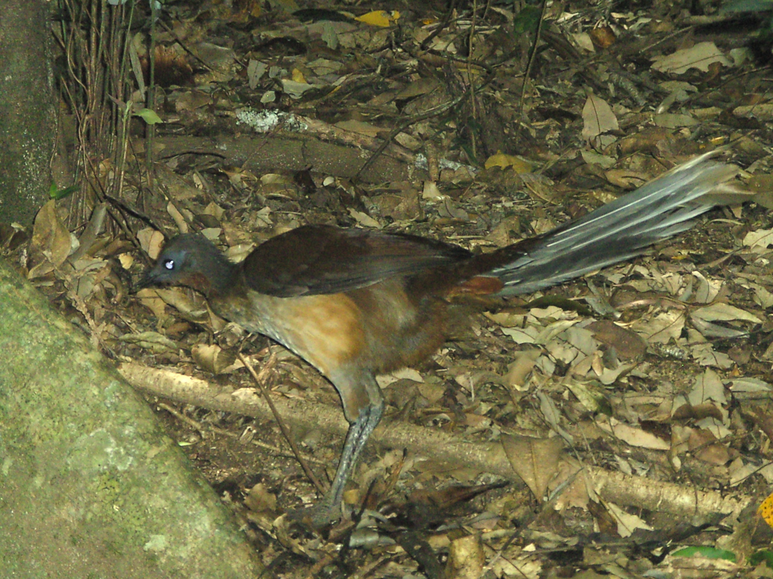 Female Albert's Lyrebird, Mount Warning, New South Wales, flash